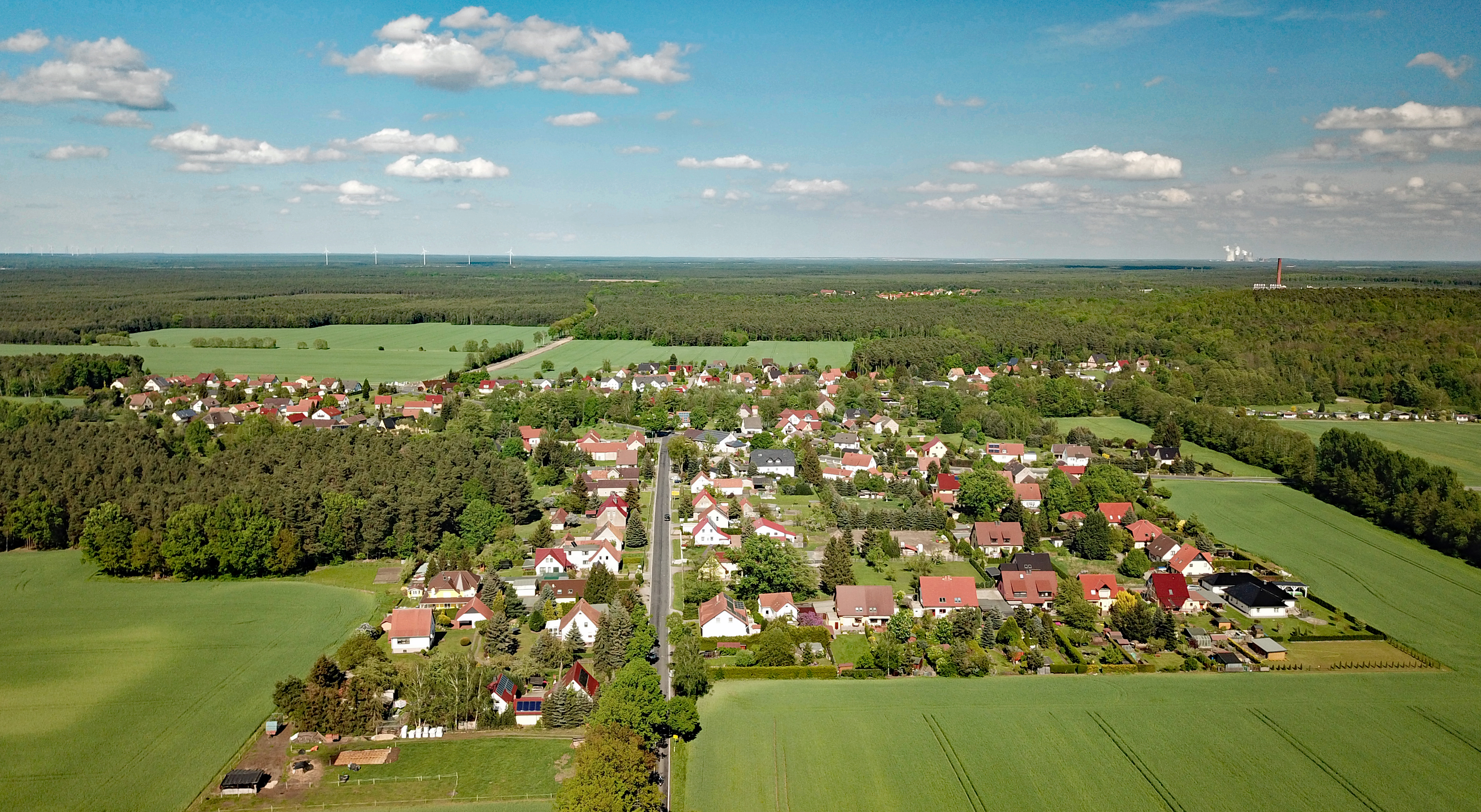 Maukendorf (Wittichenau, Saxony, Germany) Hornjoserbsce: Powětrowy wobraz Mučowa